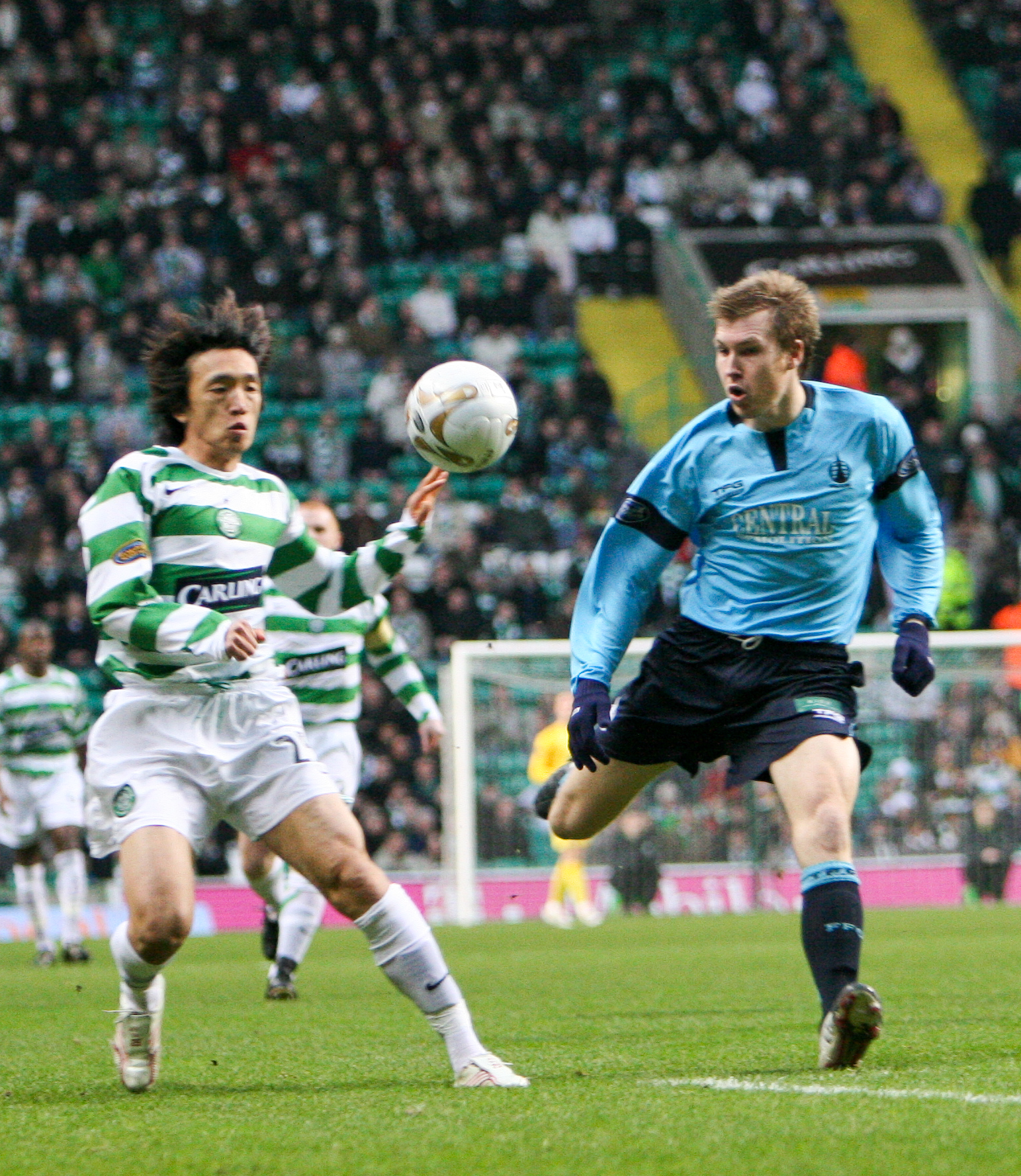 Karl Dodd for Falkirk versus Shunsuke Nakamura for Celtic